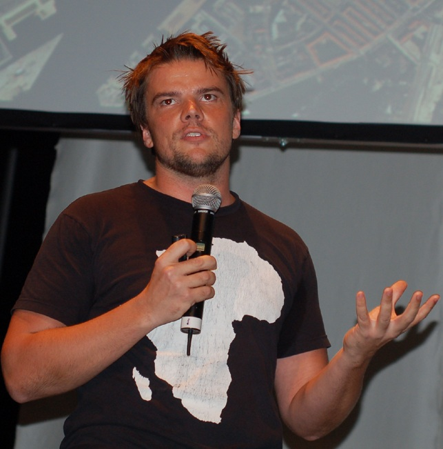 Bjarke Ingels at Helsinki Design Week, October 2, 2008.